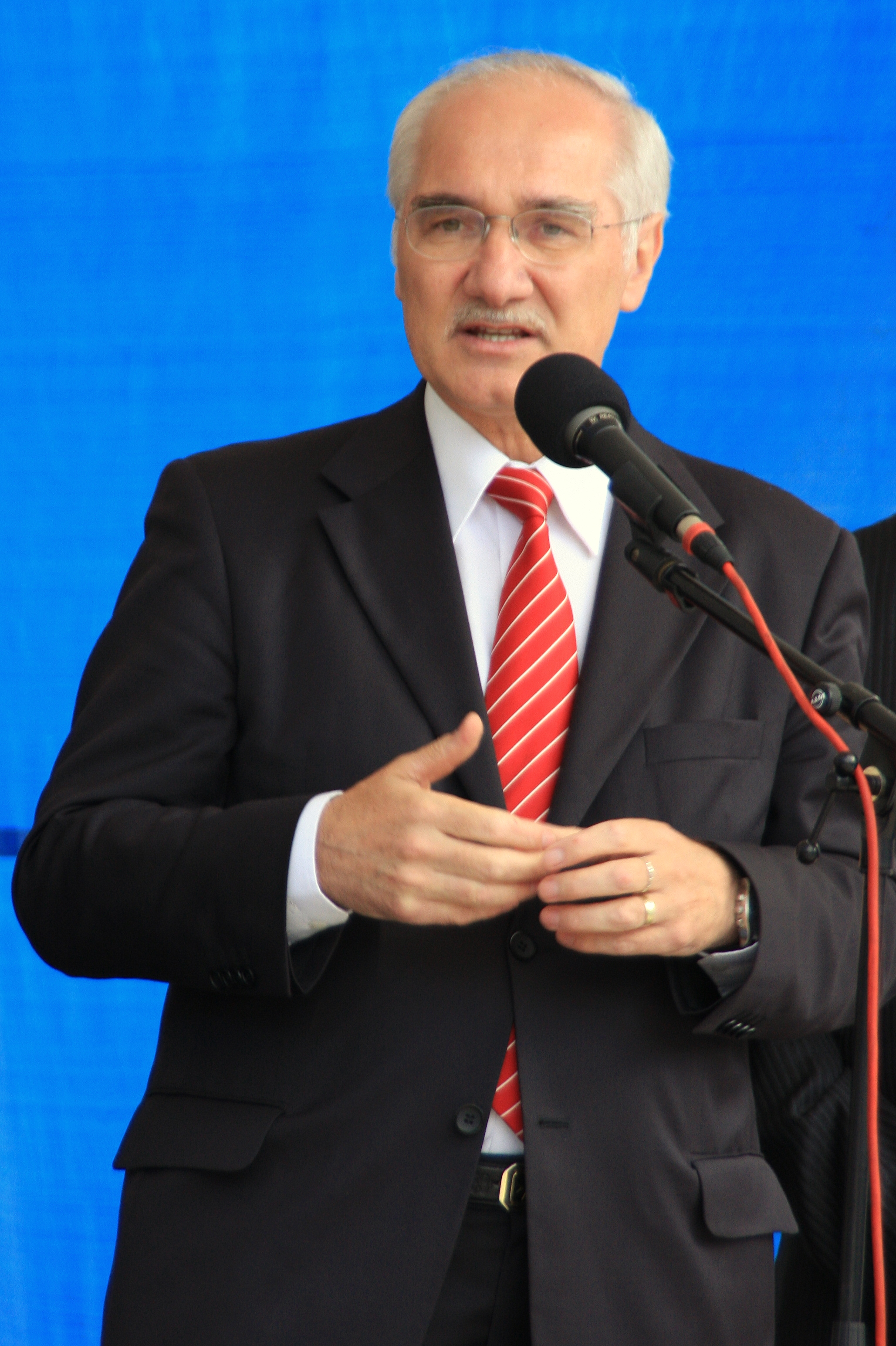 Miroslav Mikolášik